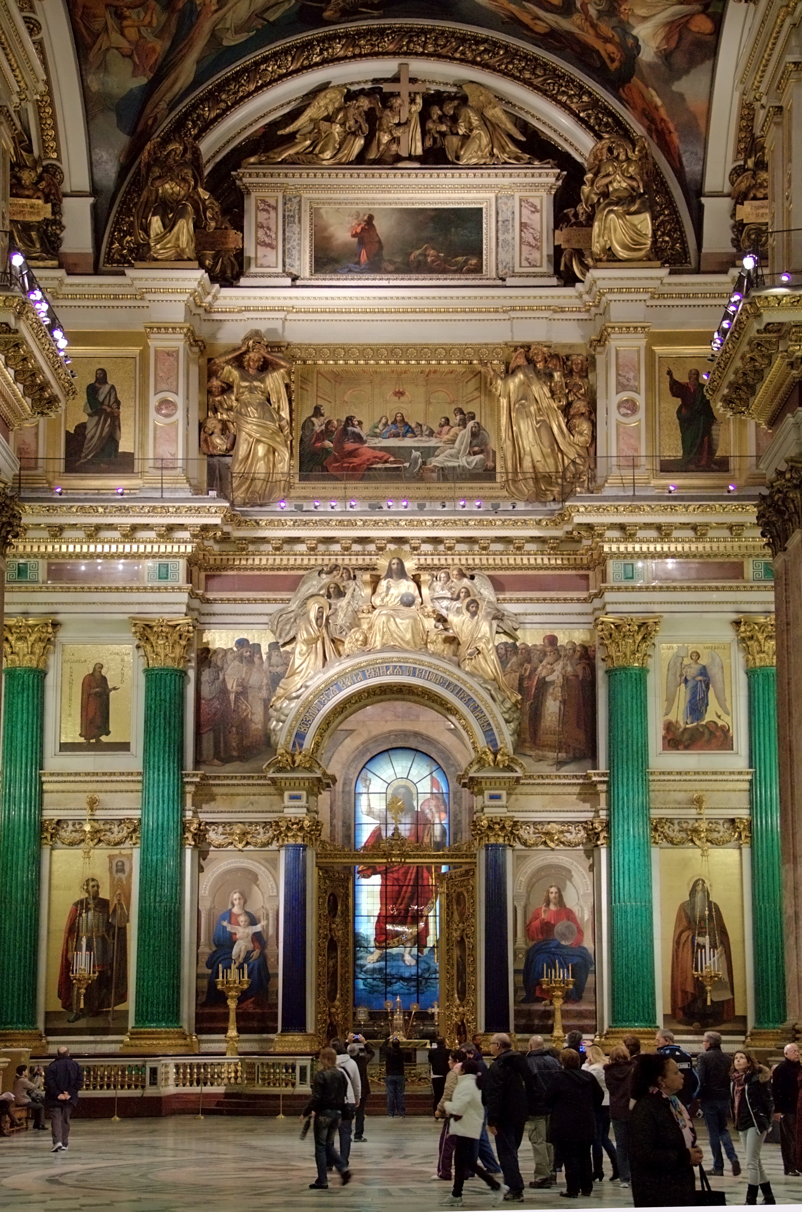 Iconostasis in Saint Isaac's Cathedral